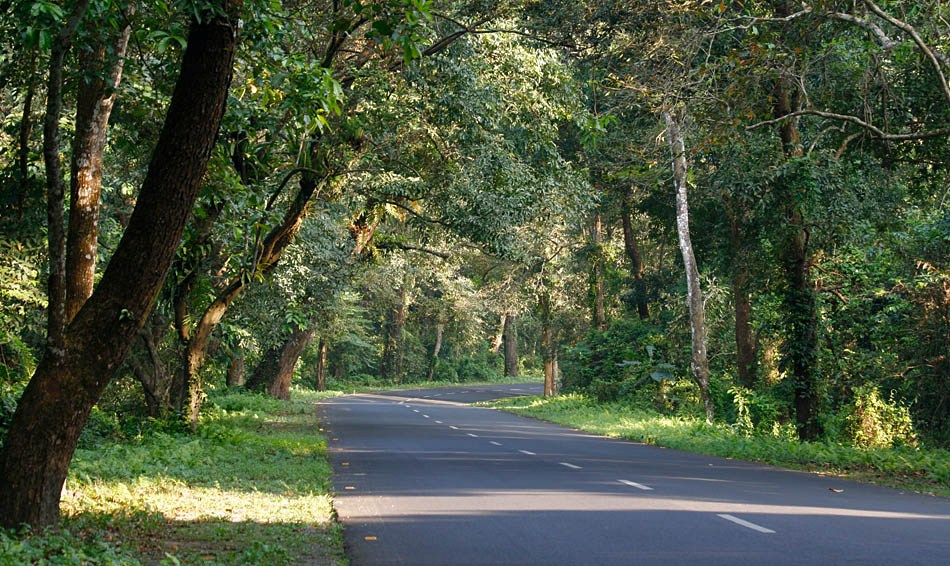 NH 717 (Old NH 31) near Lataguri